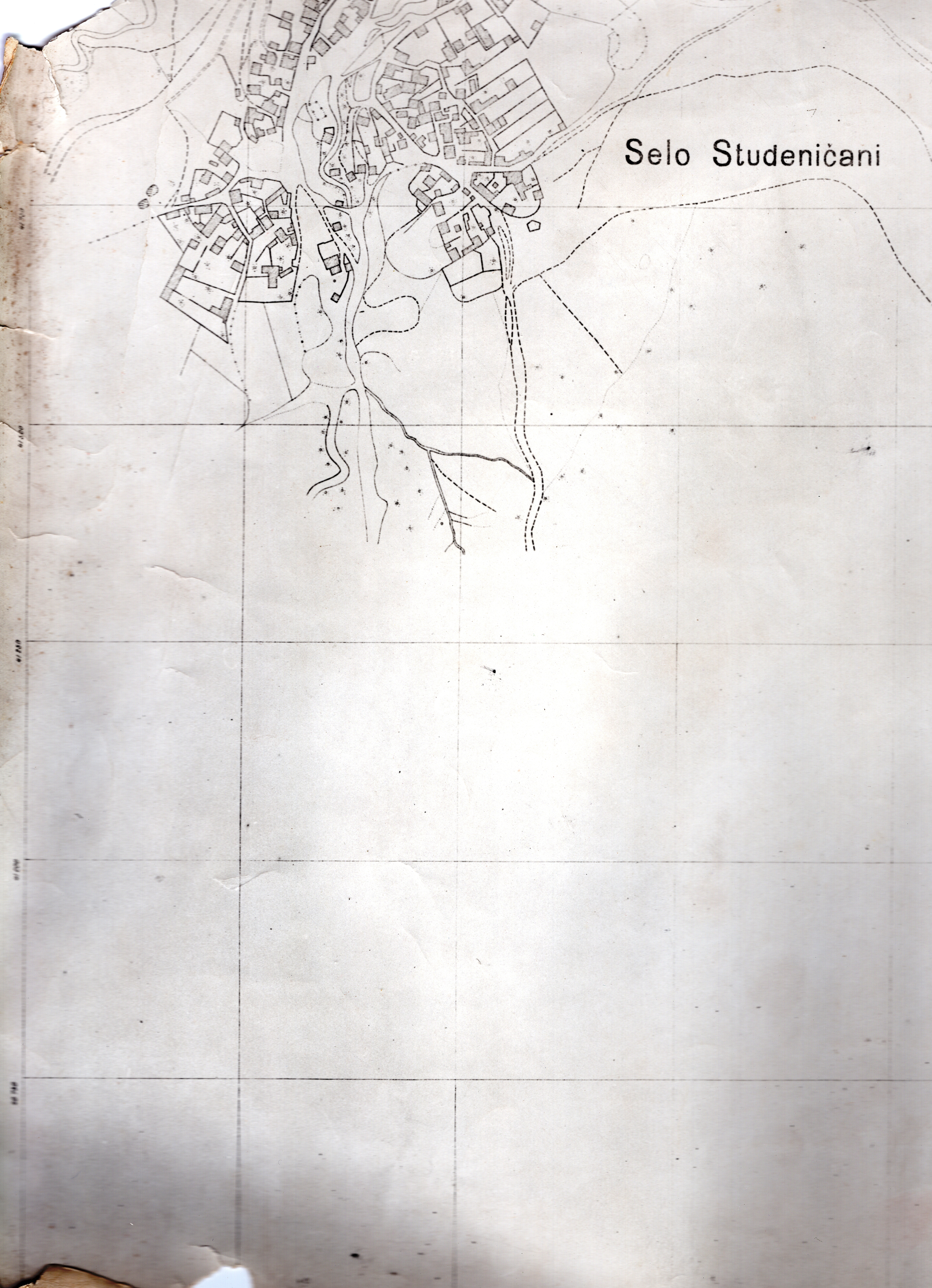 Geodesy map of Studenichani, Macedonia, an aero photogrammetric map (1930s). This media file is produced by Wikipedian in Residence in Category:Wikipedian in Residence at DARM in 2017.